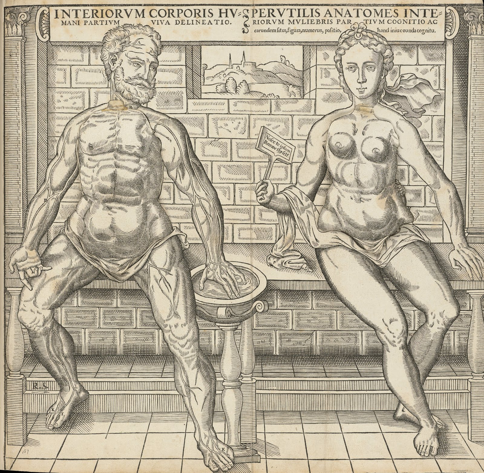 Anatomical Fugitive Sheet depicting the human body in various stages of dissection